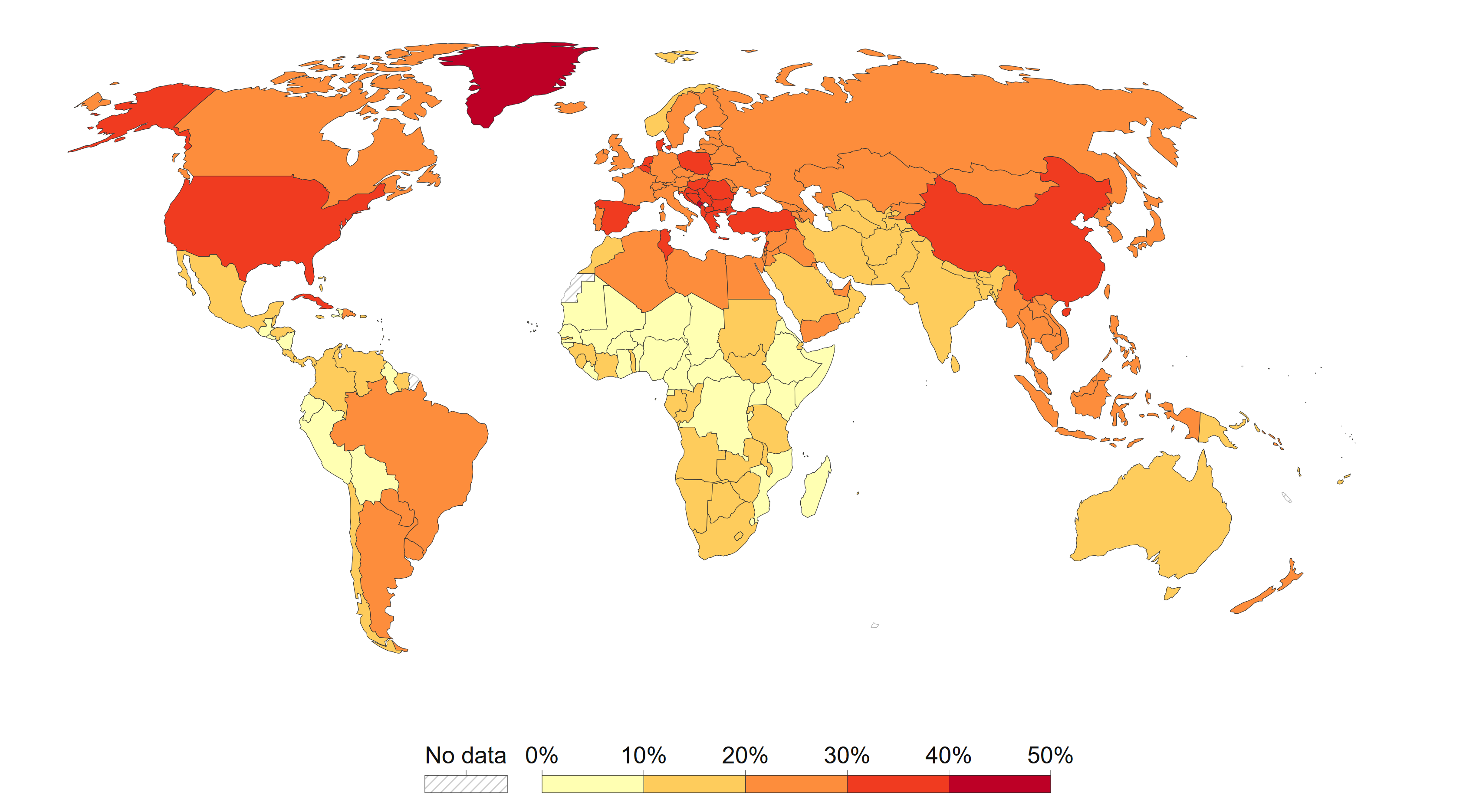 Share of total cancer deaths attributed to tobacco smoking (which is inclusive of smoking and secondhand smoke). This impact is measured across total cancer types 2016.